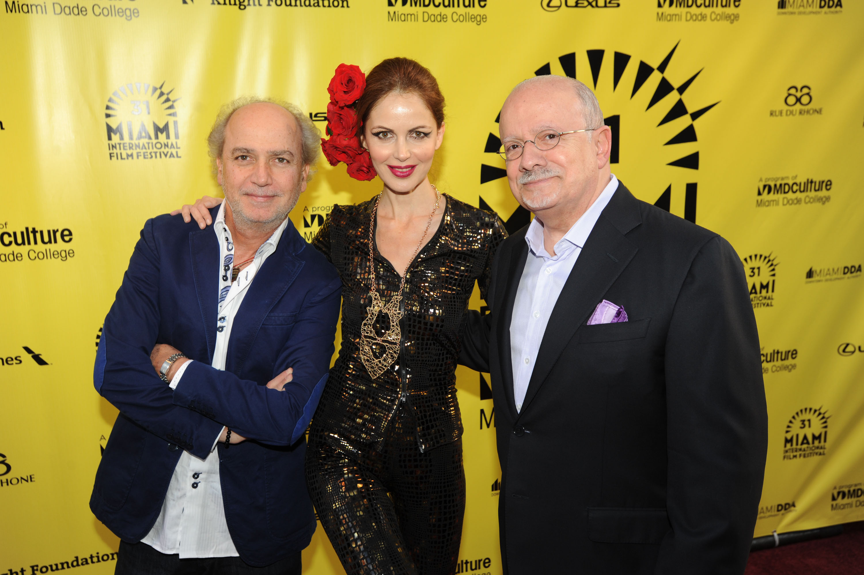 Conductor Eduardo Marturet, Athina Marturet & MDC president Dr. Eduardo Padrón Photo by: World Red Eye